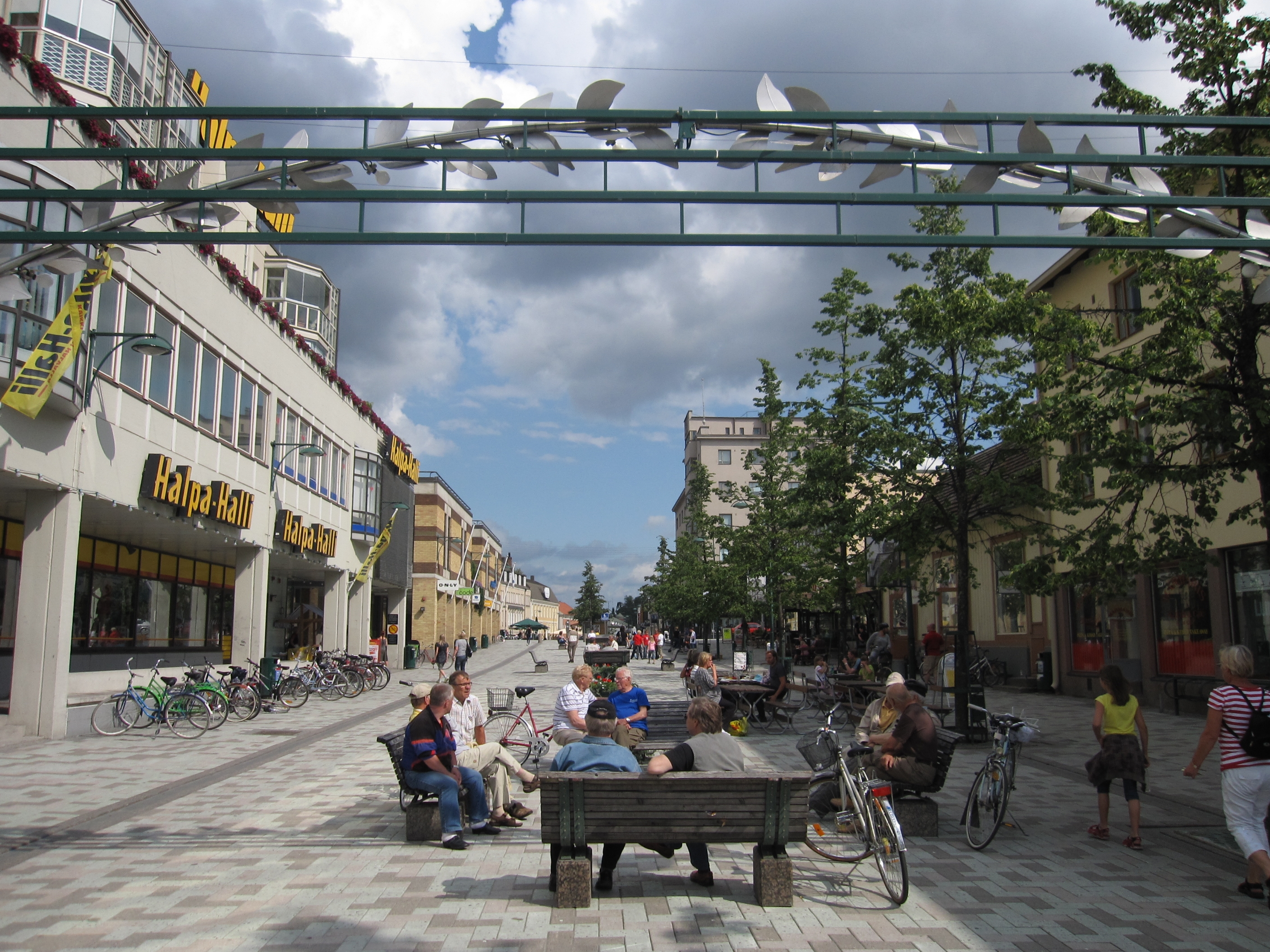 Pietarsaari city